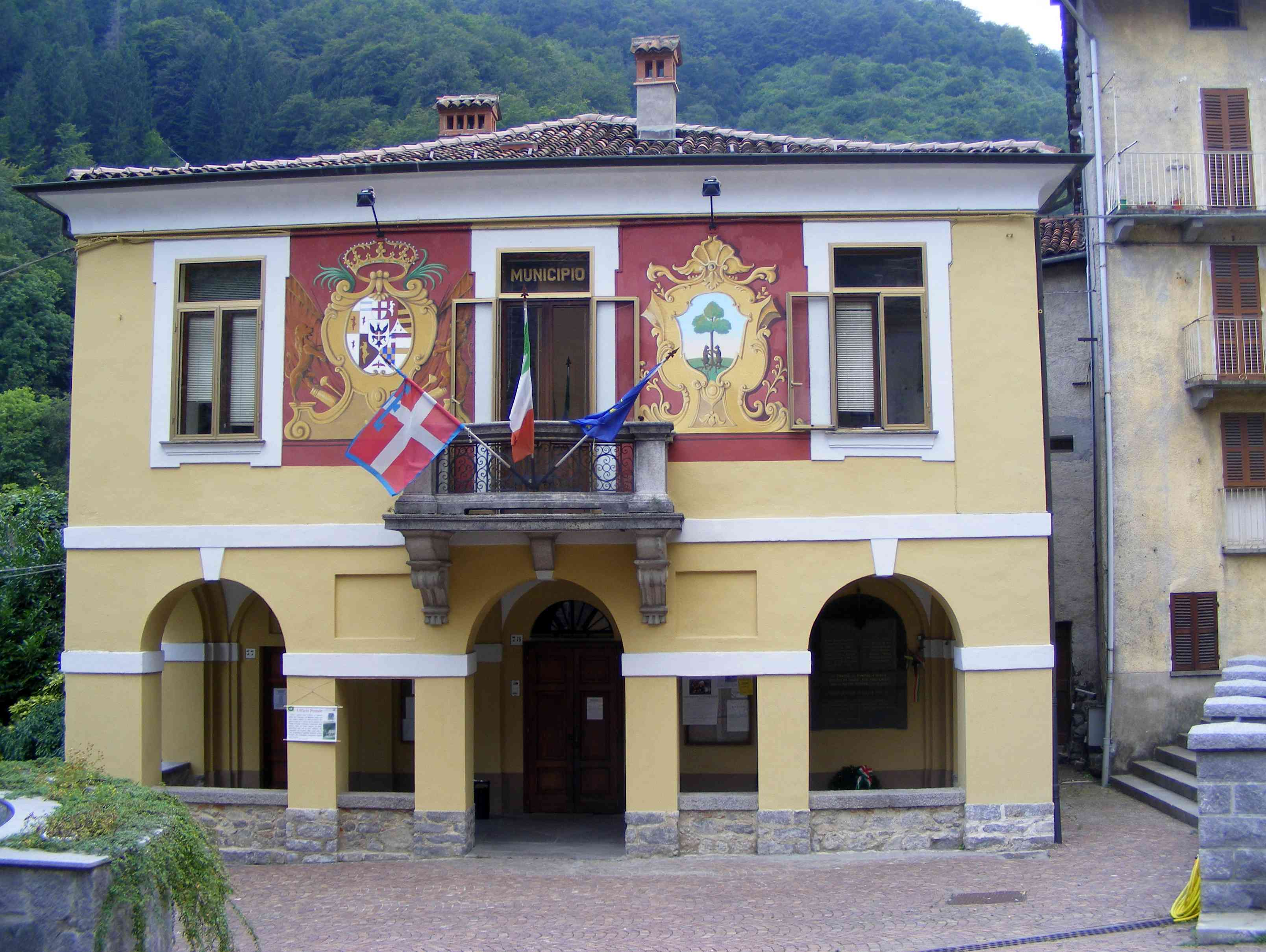 Campiglia Cervo (BI, Italy): town hall